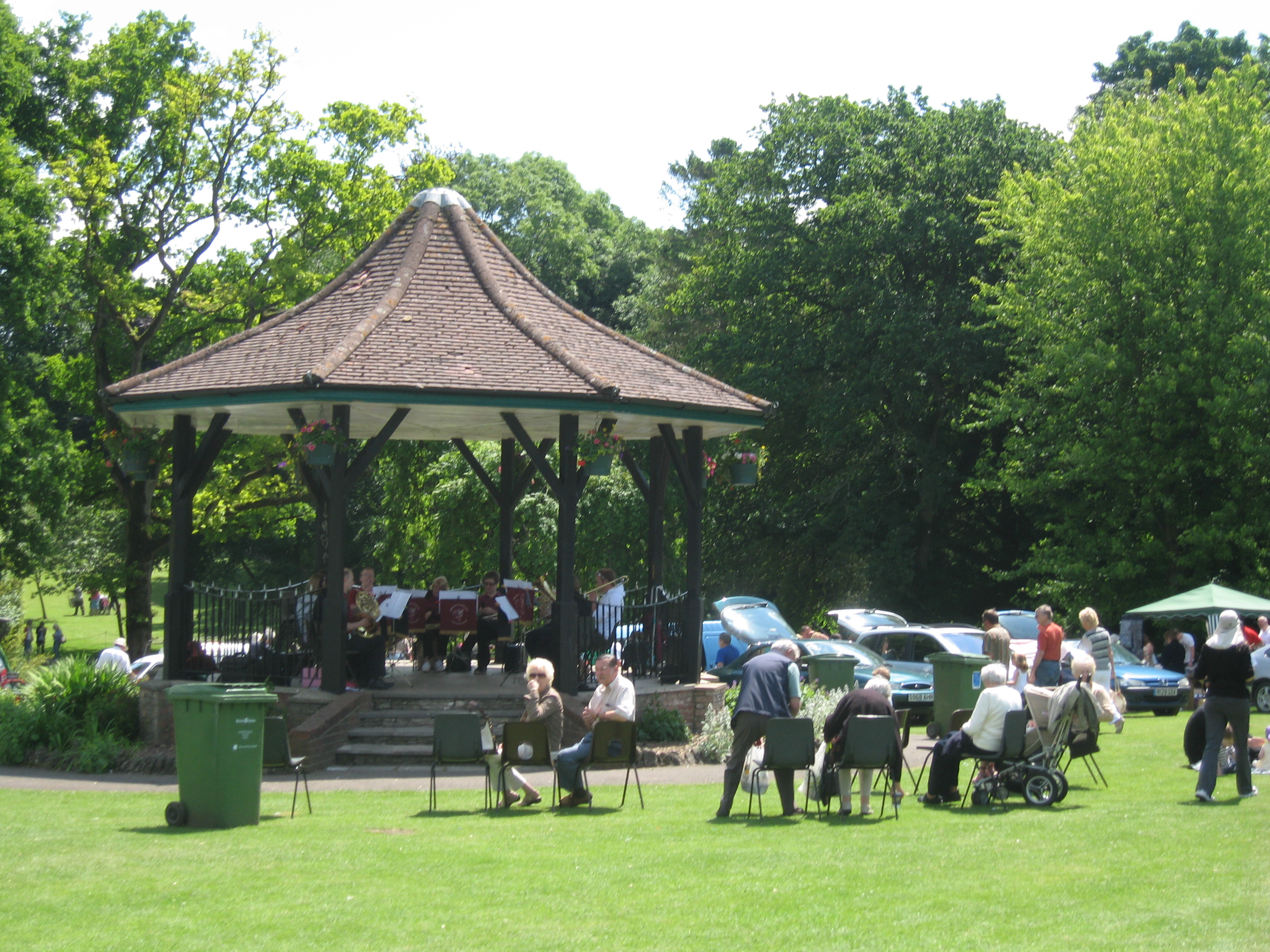 A view of the Collett Park bandstand in Shepton Mallet, Somerset, UK, during Collett Day. The park is surprisingly large for the small market town, and is a legacy of John Kyte Collett (1836-1933), a local man who became a trader and made good on his promise to provide a public space in the town. Each year a festival takes place in the park named for him. Here the Whitstone Community Band are playing. Picture taken by wurzeller on 14 June 2008.